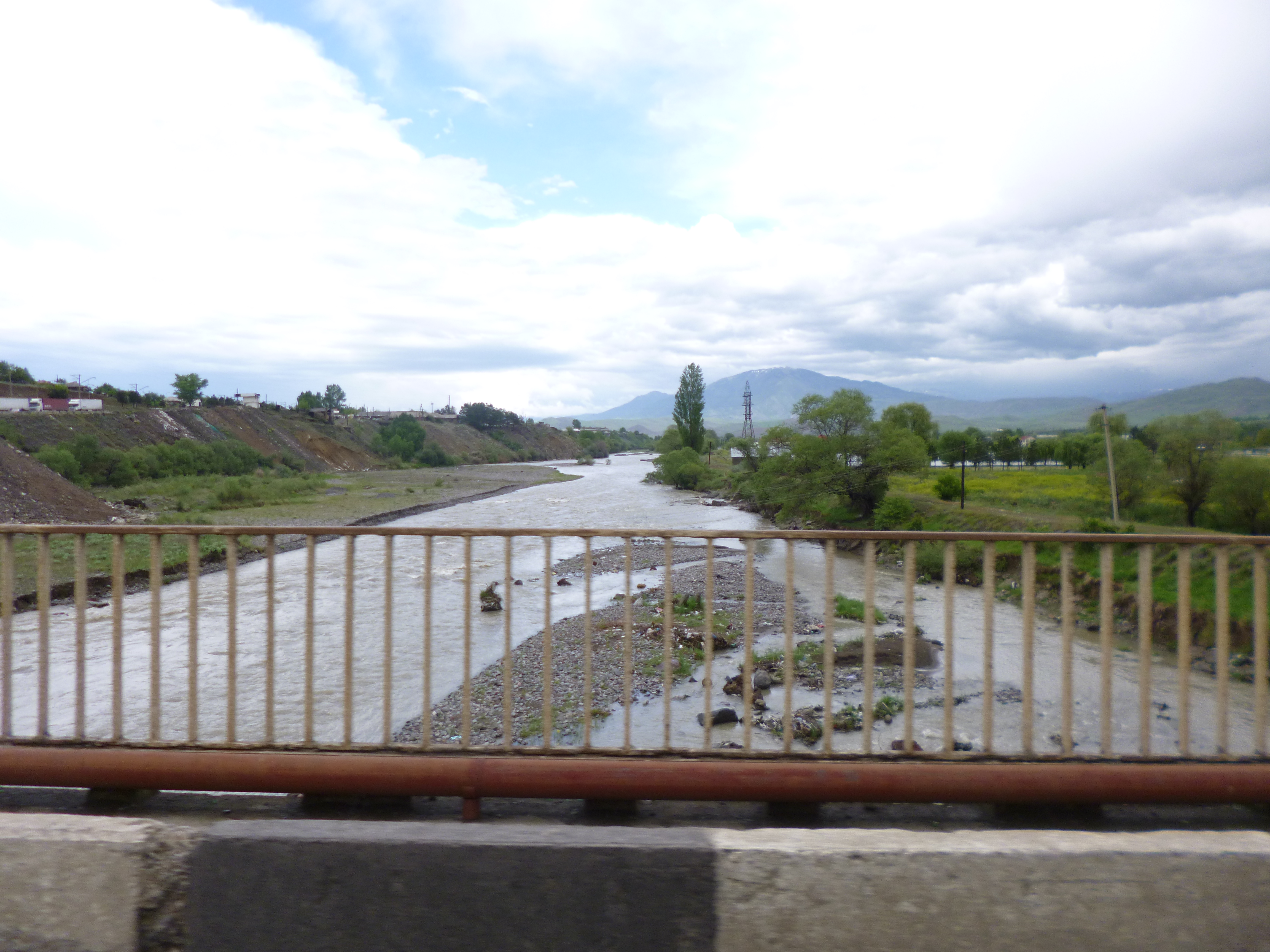 Entering town of Akhalsikhe Akhaltsikhe, Georgia